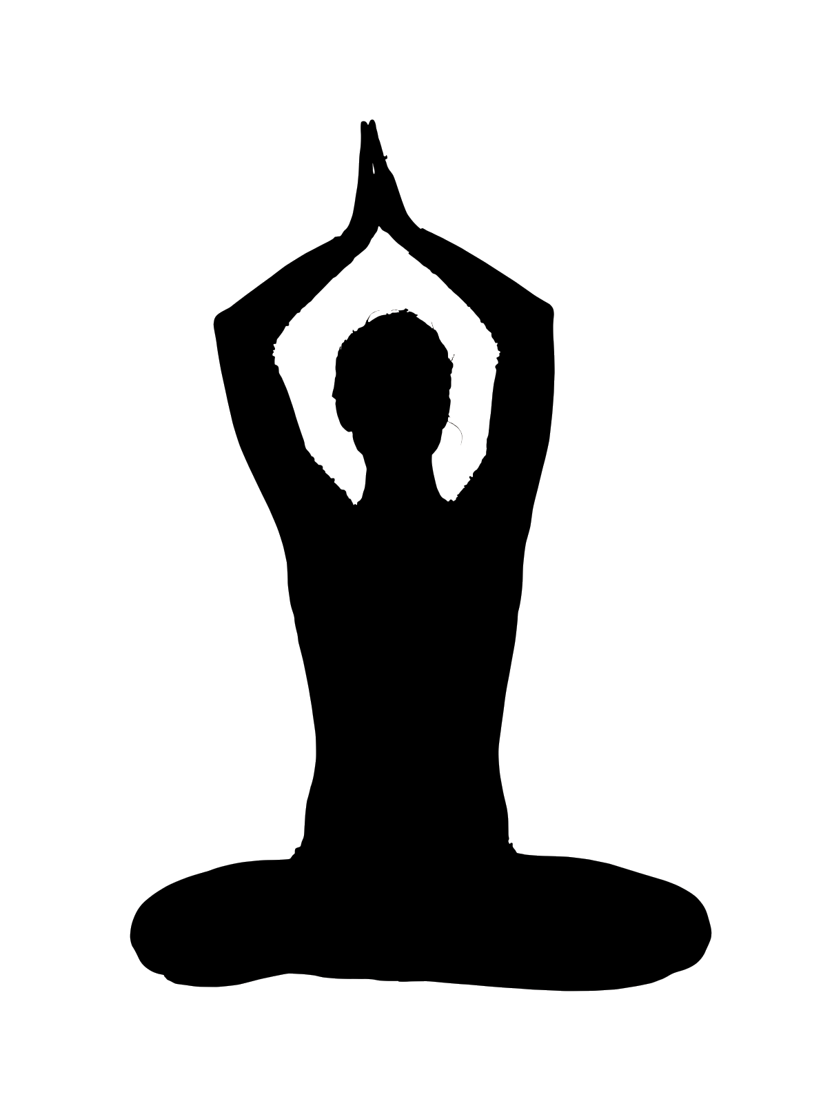 Silhouette of a yoga practitioner.